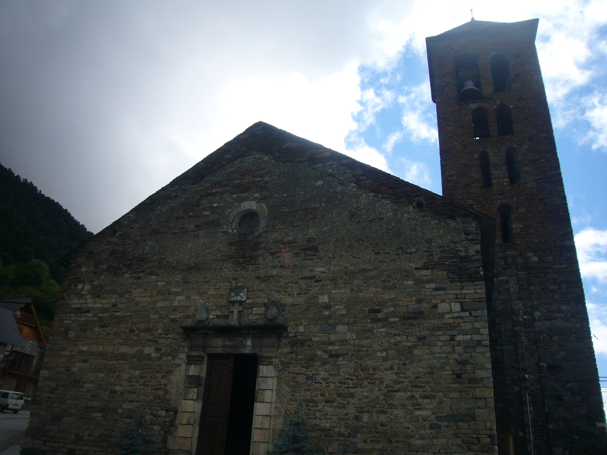 Santa Maria de Vilamòs